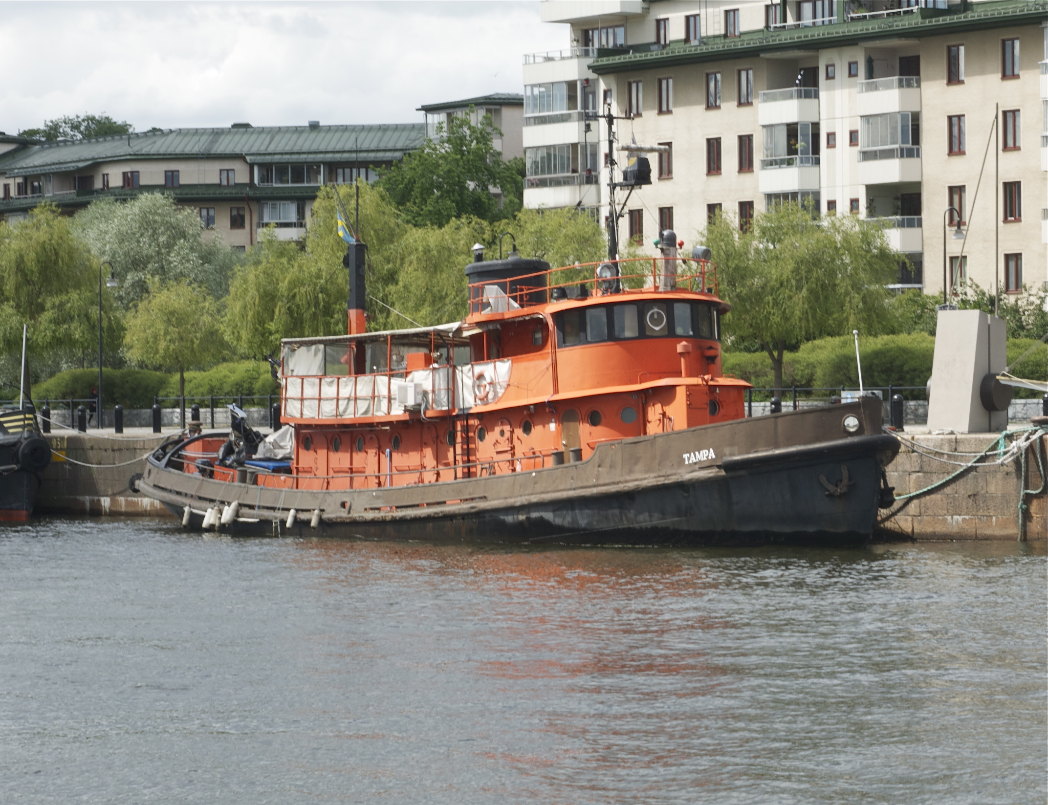 MS Tampa